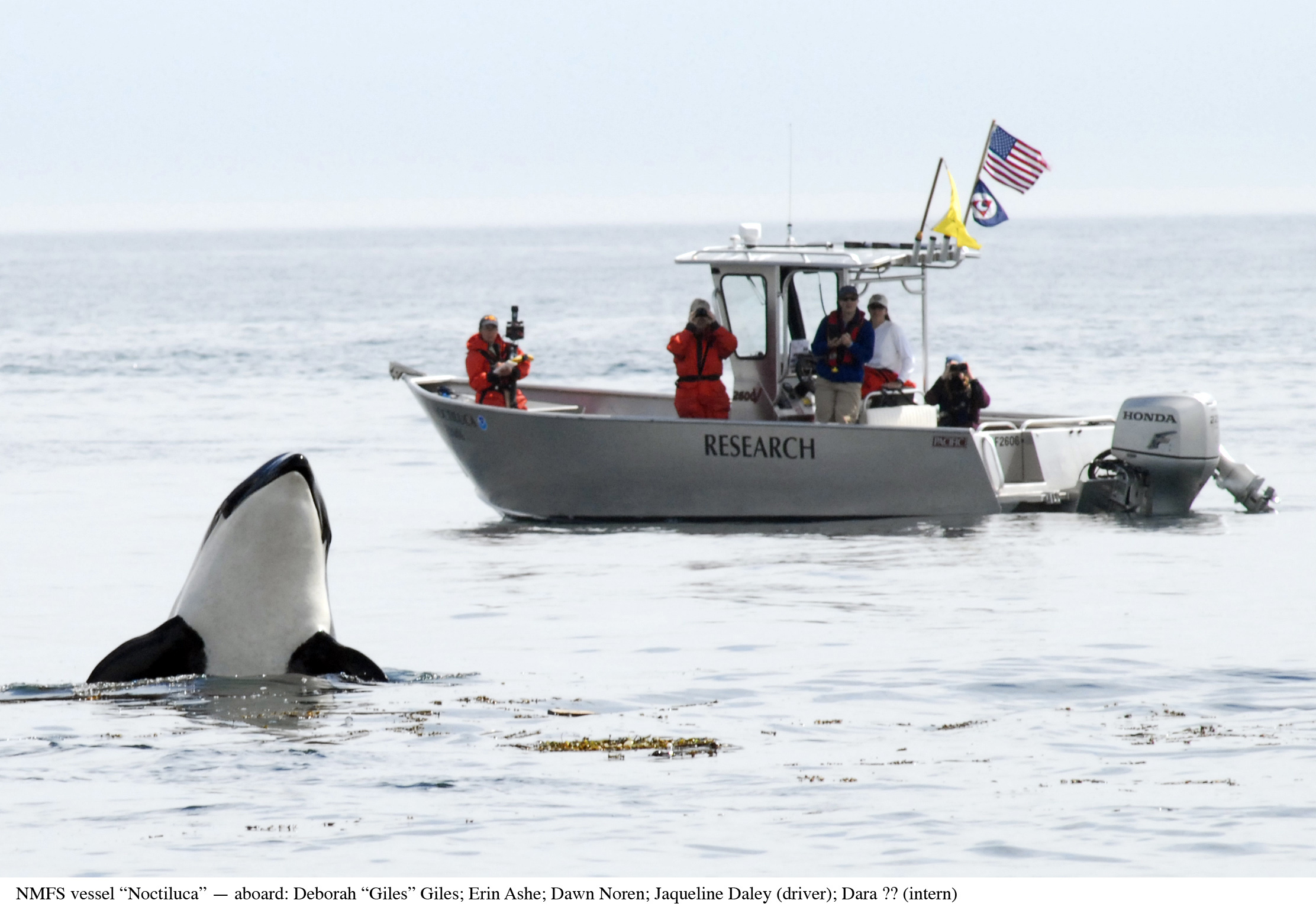 Southern Resident killer whales suffered a significant population decline in the late 1990s and are now listed as endangered under the U.S. Endangered Species Act. Killer whales are exposed to disturbances from commercial and private vessels during the summer whale watch season, and whether such vessels change killer whale behavior is still unknown. In July 2006, the crew aboard the National Marine Fisheries Service vessel Noctiluca observed a "spy hopping" Southern Resident killer whale off San Juan Island, Washington. The Northwest Fisheries Science Center's marine mammal program also conducts innovative research to better understand killer whale ecology, taxonomy, physiology, and behavior. Shown (from left): Deborah Giles, Erin Ashe, Dr. Dawn Noren, Jaclyn Daly, and Dara Rehder.